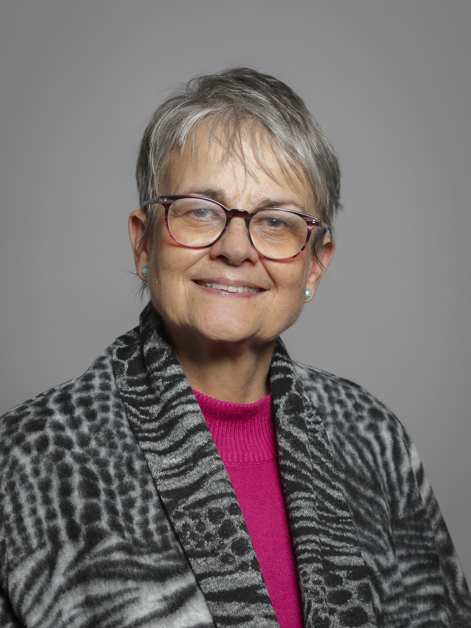 Official portrait of Baroness Ritchie of Downpatrick 3×4 portrait of Baroness Ritchie of Downpatrick